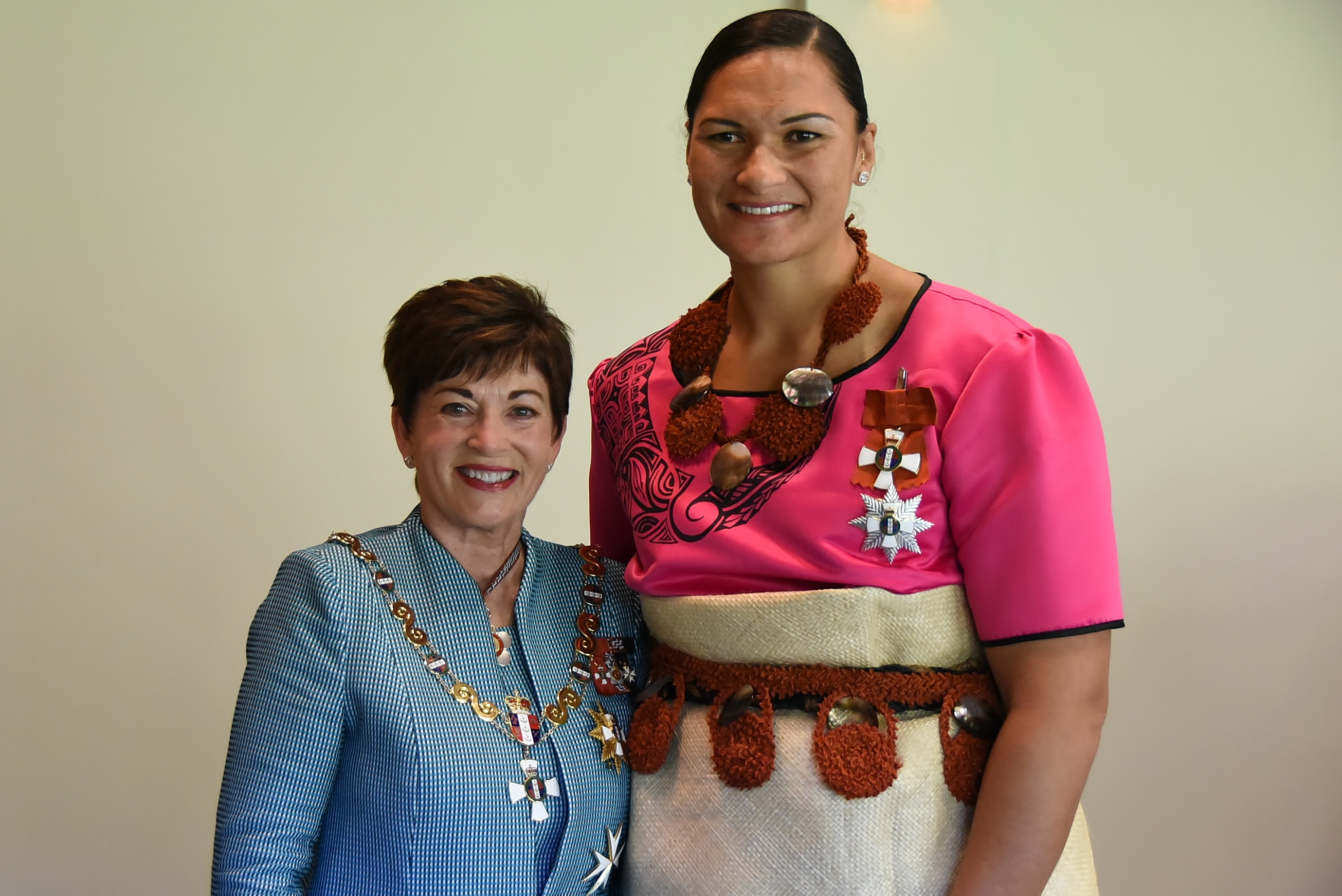 Investiture Wednesday 26 April AM - Dame Valerie Adams, of Auckland, DNZM, for services to athletics